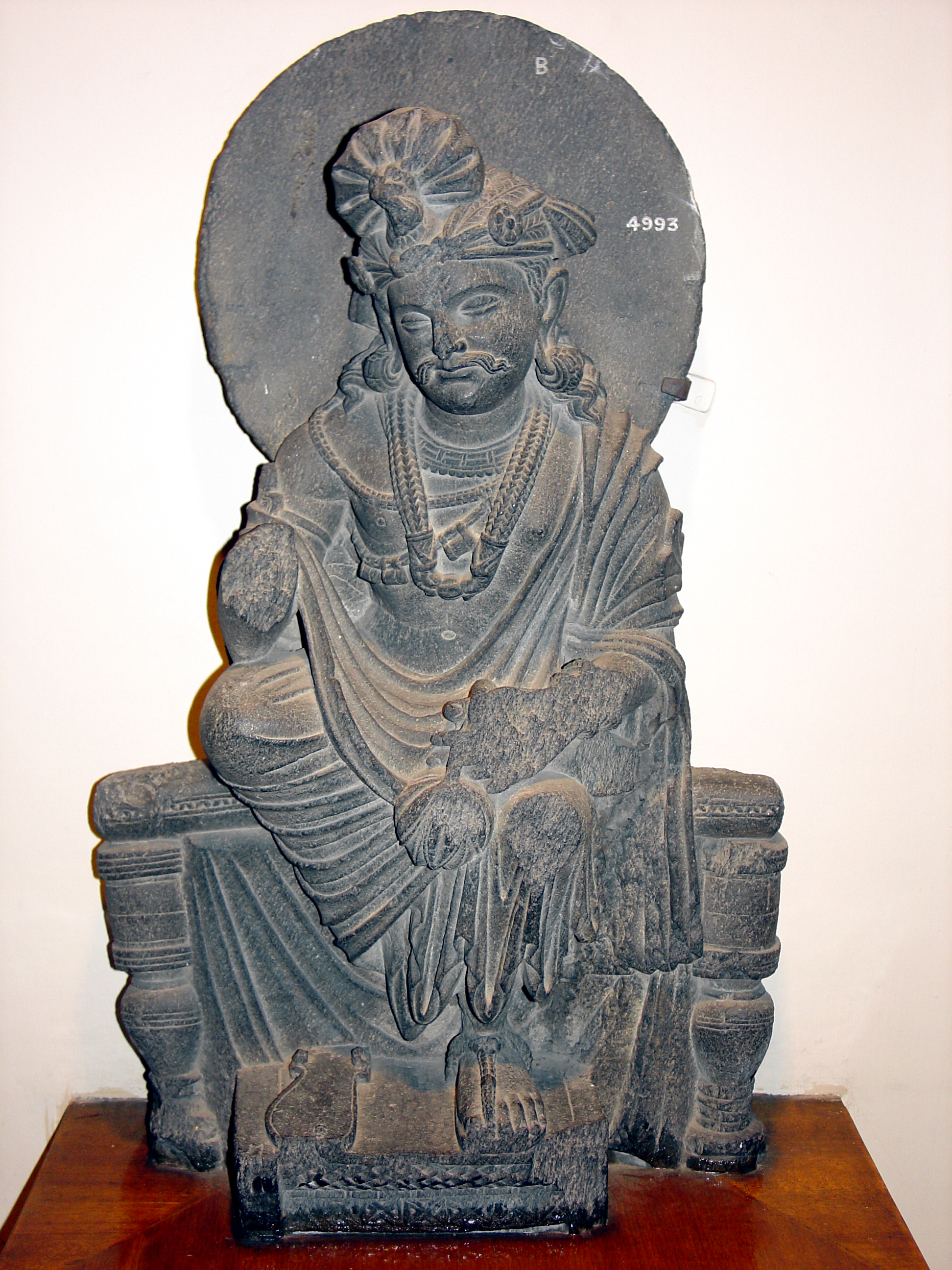 Seated Avalokiteshvara. Gandharan, from Loriyan Tangai. Kushan period, 1st - 3d century AD. Indian Museum, Calcutta. The bodhisattva is sitting in the posture called "royal ease."